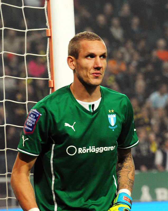 Malmö FF goalkeeper.